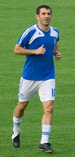 Geprge Karagkounis